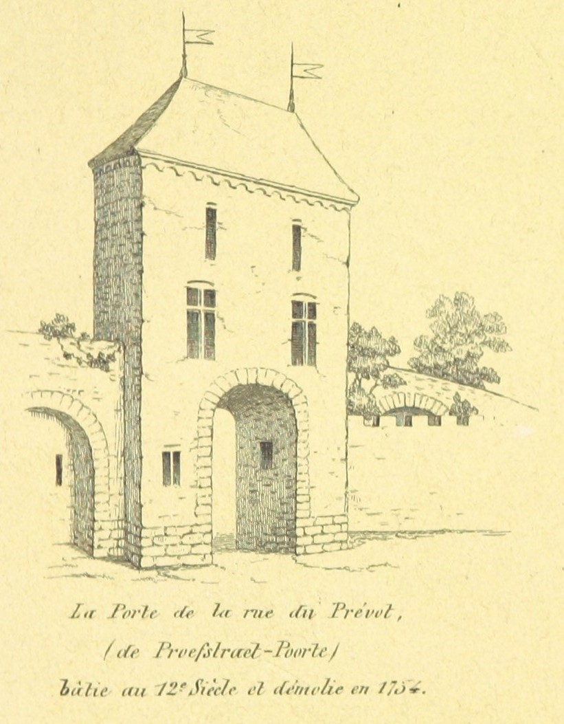 Former city gate of Leuven (Belgium): Sint-Kwintensbinnenpoort, situated in the street Naamsestraat